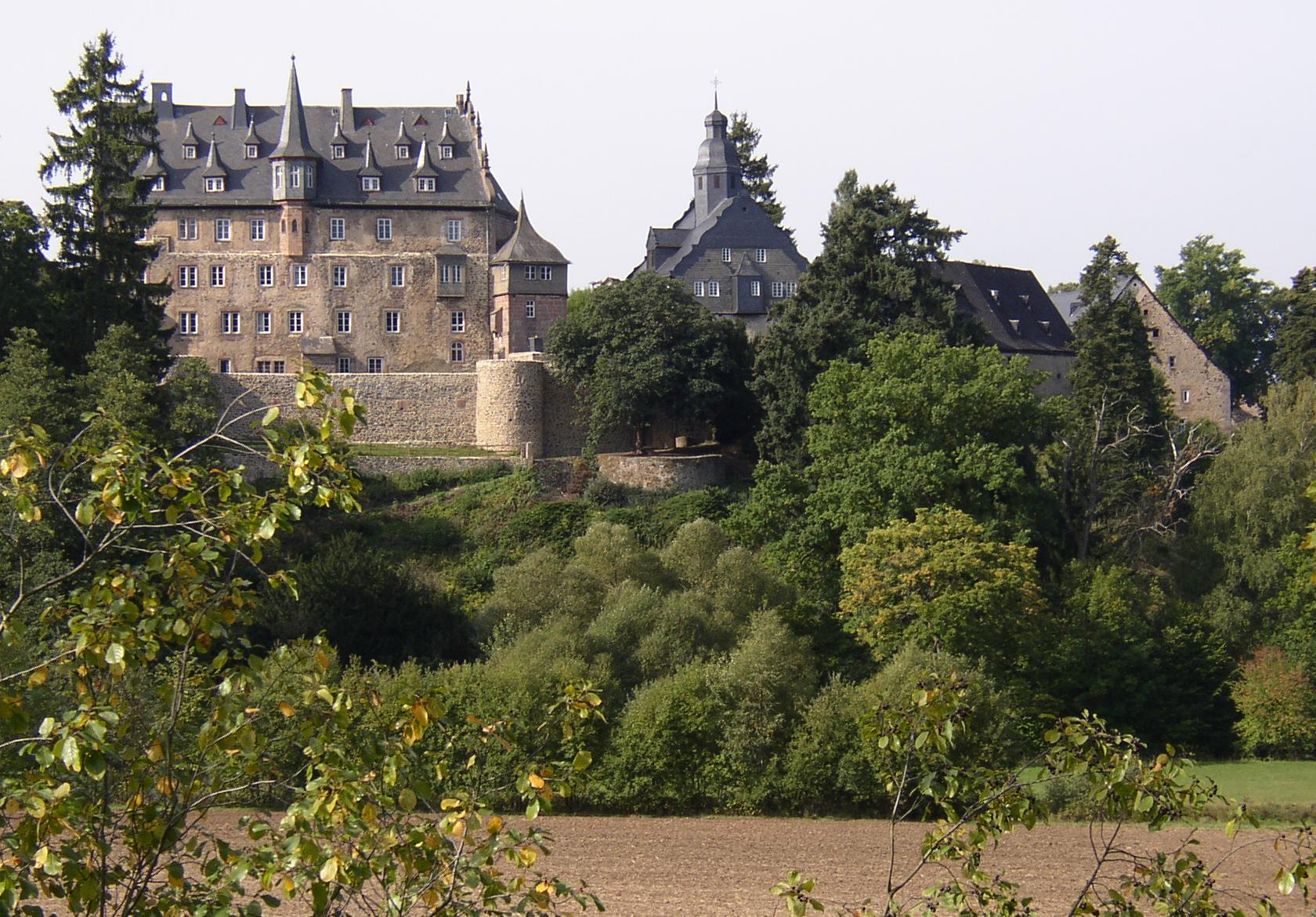 Castle Eisenbach in Lauterbach-Frischborn in Hesse, Germany